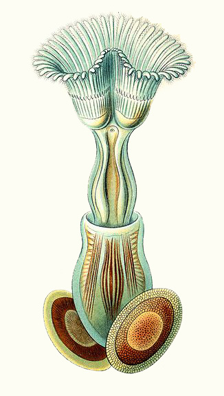 Plumatella repens ; drawing from Haeckel Bryozoa drawing (1904)